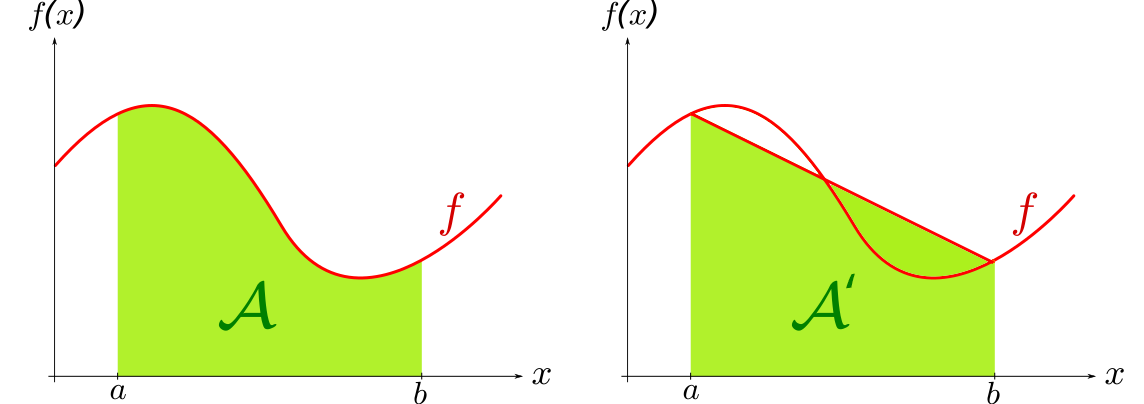 approximation trapezoïdale